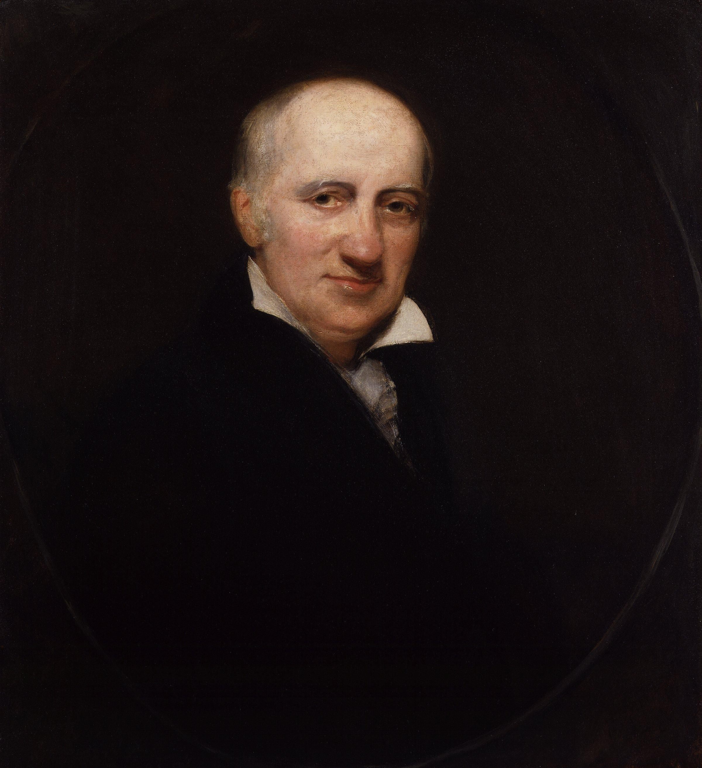 William Godwin, by Henry William Pickersgill (died 1875). All images in this batch have been confirmed as author died before 1939 according to the official death date listed by the NPG.